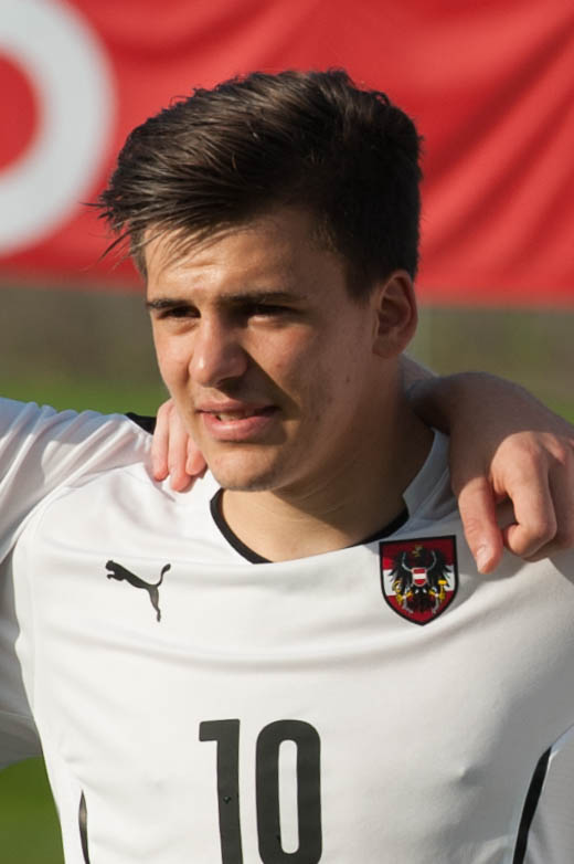 U21 Austria - DR Congo, 2014-10-12: Thomas Murg